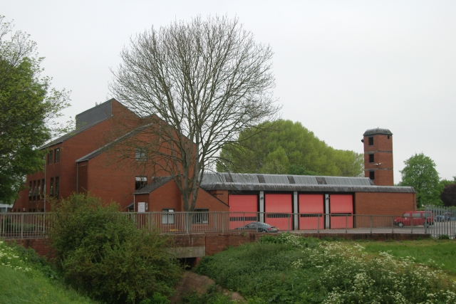 Taunton Fire Station, Liseux Way, Taunton, Somerset. Up until this year, the counties of Somerset & neighbouring Devon ran their own fire services. On 1st April 2007, the two counties combined fire services to form the Devon & Somerset Fire & Rescue Service. All other parts of the respective county councils' functions remain administered by the relevant county.